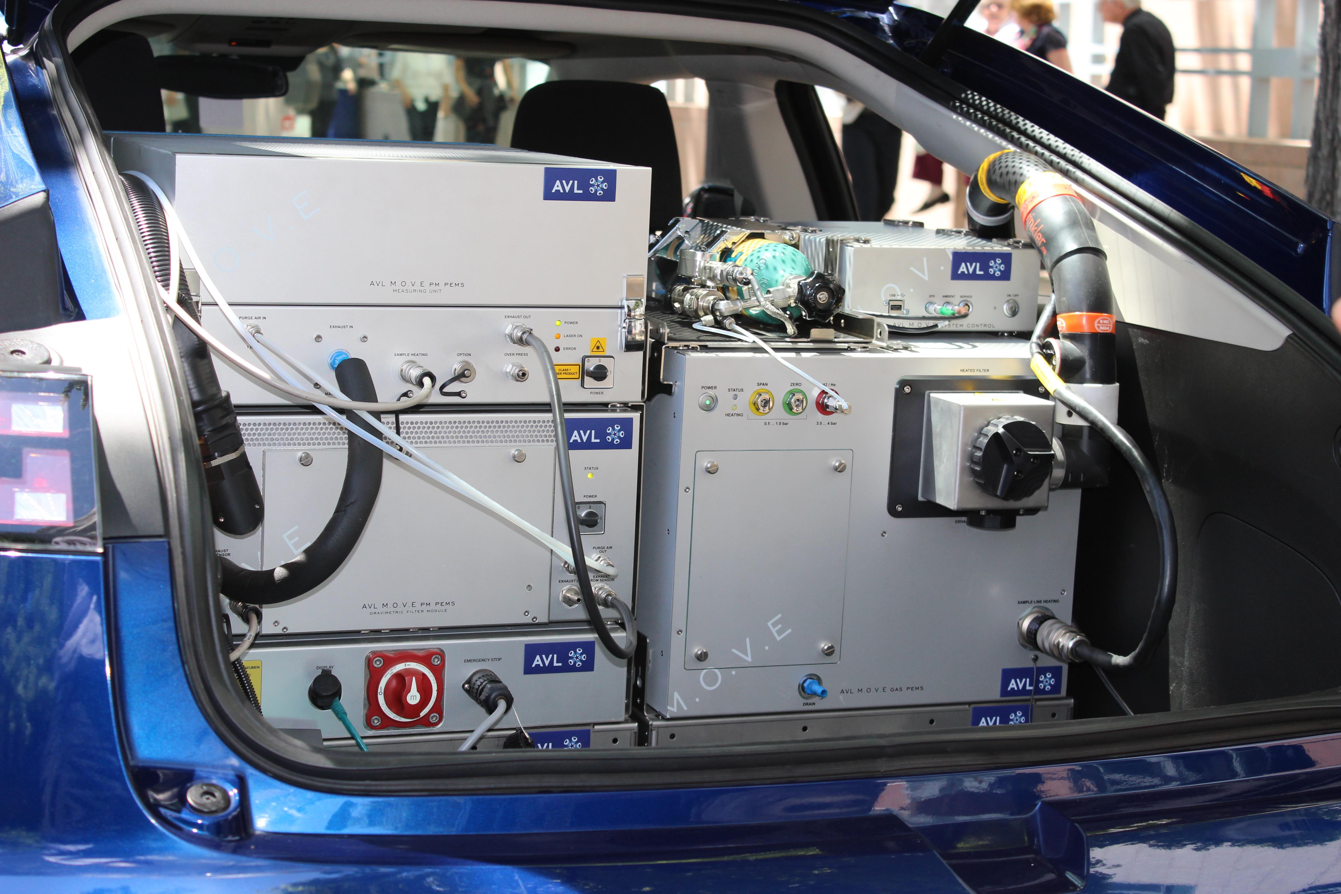 Hybrid Chevy Volt